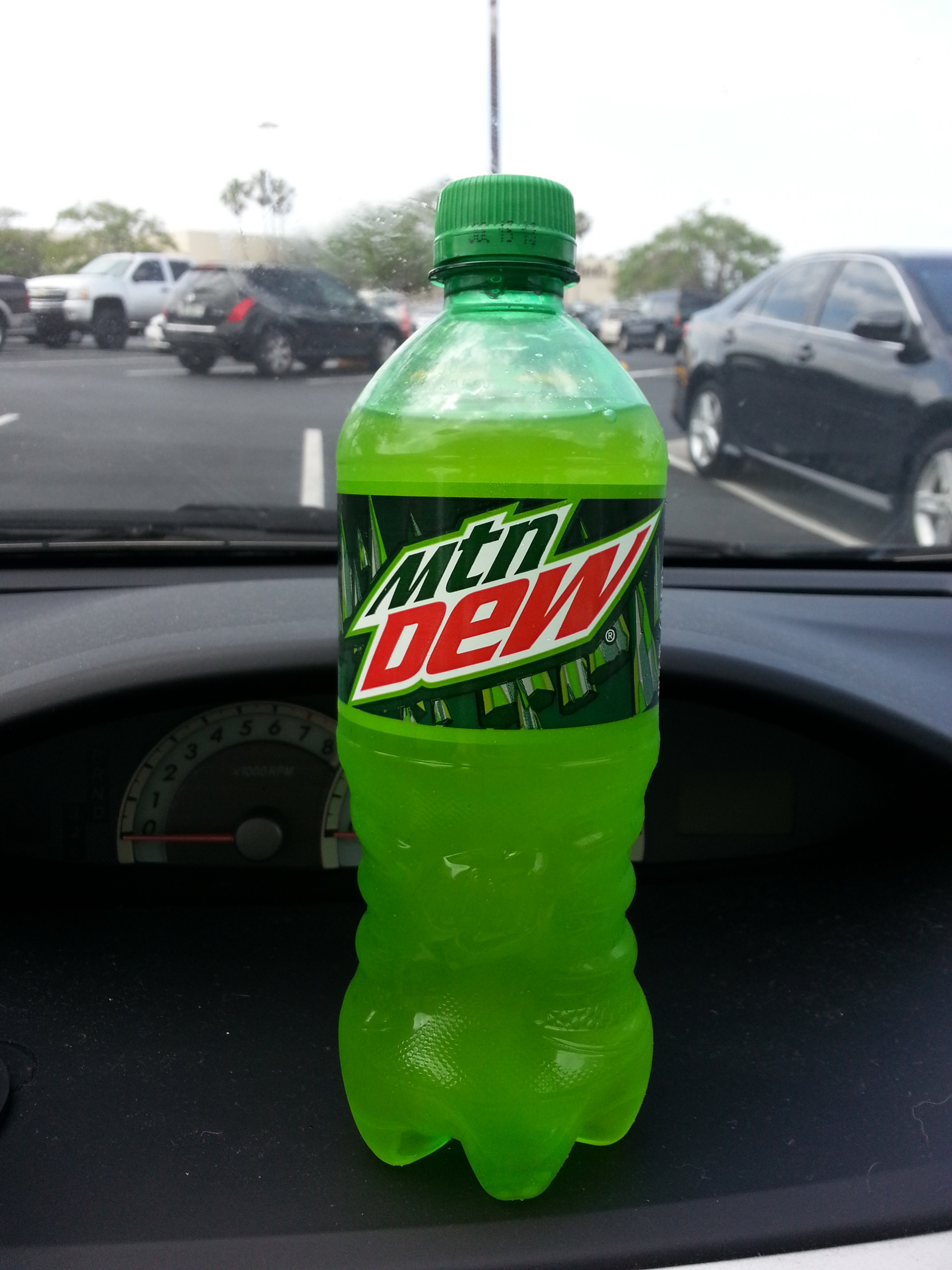 Mountain Dew in a 20 ounce bottle